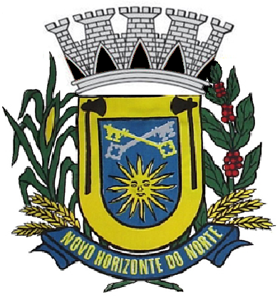 (Coat of Arms of the city of Novo Horizonte do_Norte, Mato Grosso state, Brazil.